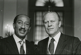 The photo contact sheet, identified as A4842 by the White House Photographic Office (WHPO), is housed at the Gerald R. Ford Presidential Library, a branch of the National Archives and Records Administration (NARA). This file is a 200 dpi photo contact sheet having images from roll of film A4842 of the August 9, 1974 - January 20, 1977 Gerald R. Ford White House Photographic Office Series A0001-A9999 and B0001-B2886 photographs. The date on the photo contact sheet is the date the roll of film was processed, not necessarily the date the photographs were taken. See table below for additional details.